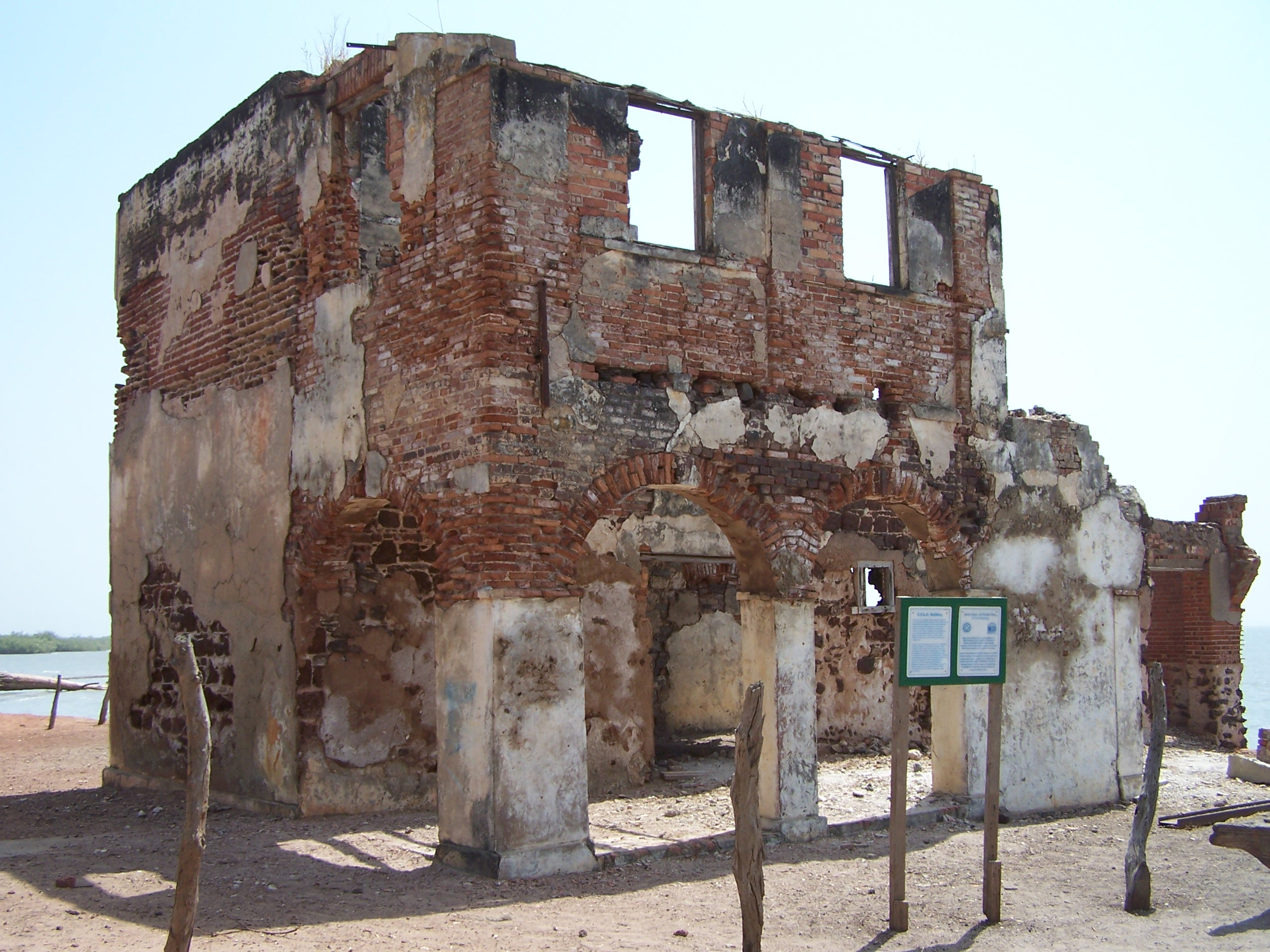 CFAO building in Juffareh